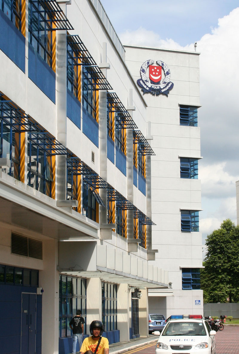 Description: View of the Jurong Police Division HQ with the SPF logo Source: Self-made Location: Jurong Police Division, Singapore Date: 12/12/2005 14:48 Photographer/Painter: Huaiwei